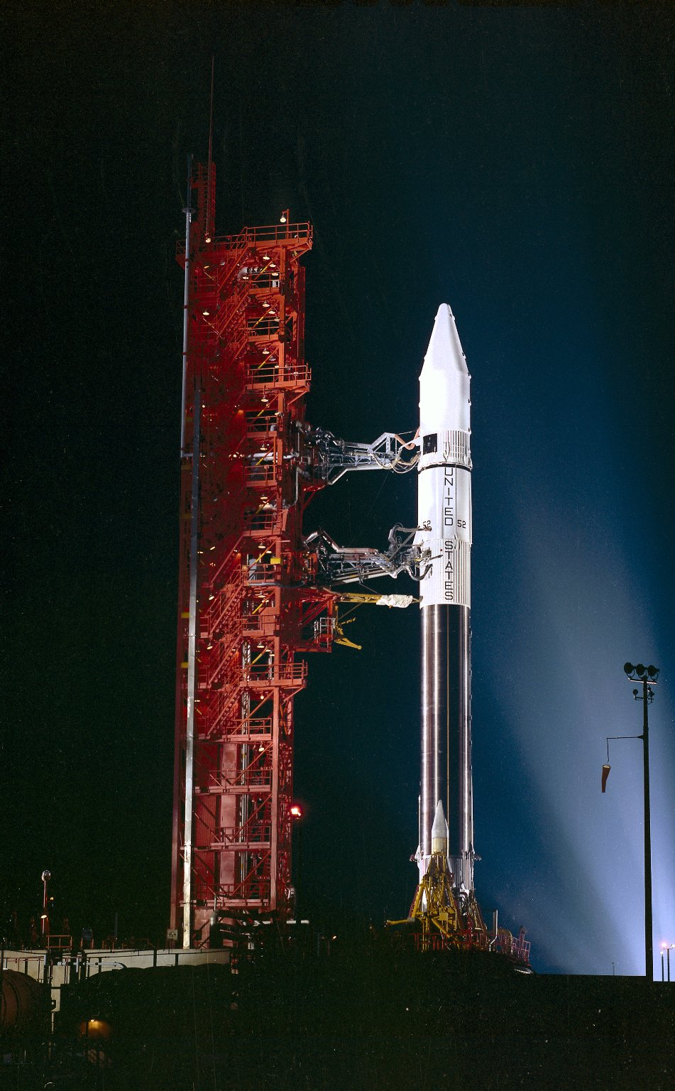 The Atlas-Centaur-52 launch vehicle on the launch pad. The Atlas-Centaur-52 placed the High Energy Astronomy Observatory-2 (HEAO 2) in orbit on November 13, 1978.